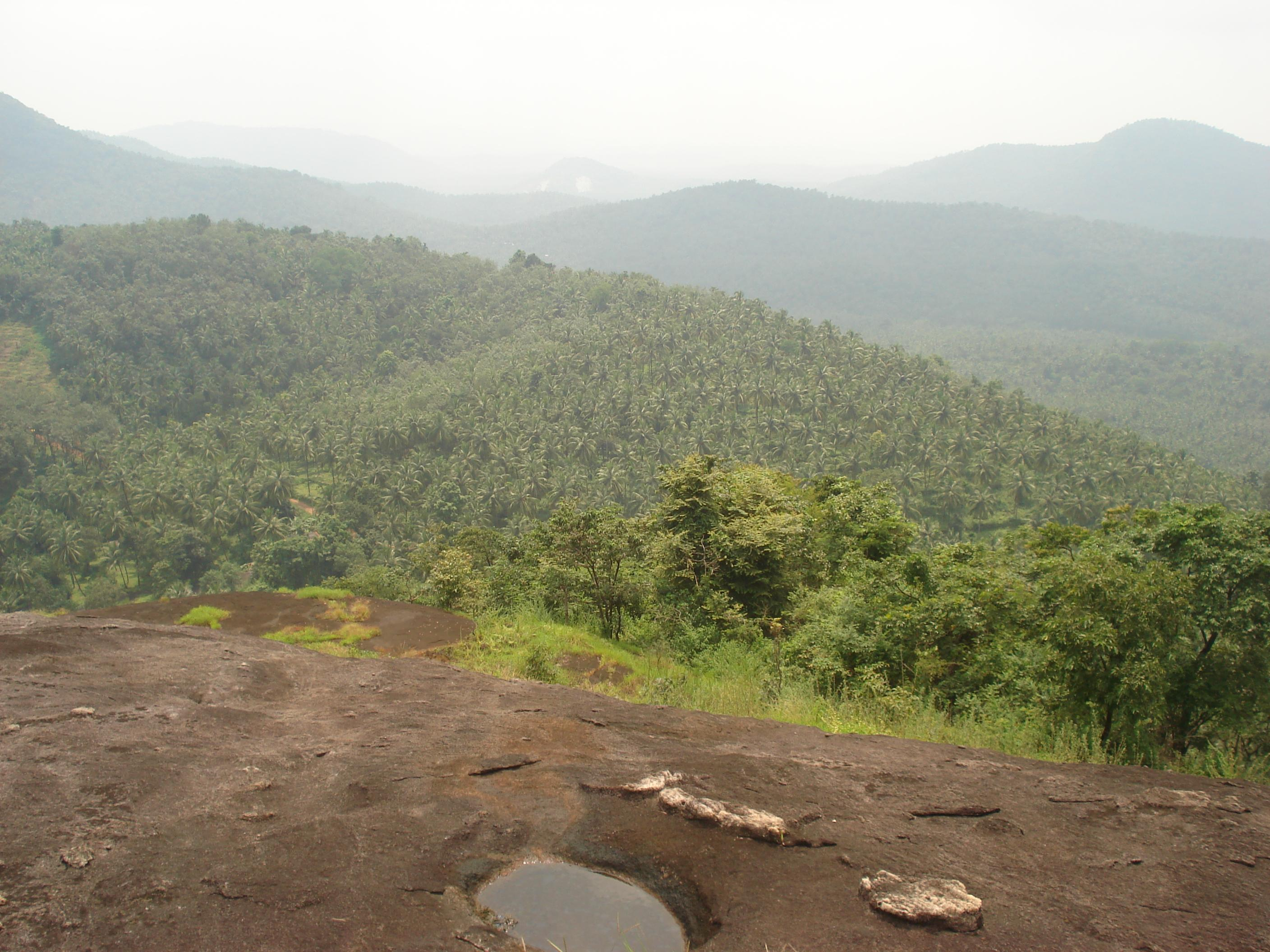 Beauty of Koorachund - Erappanthodu